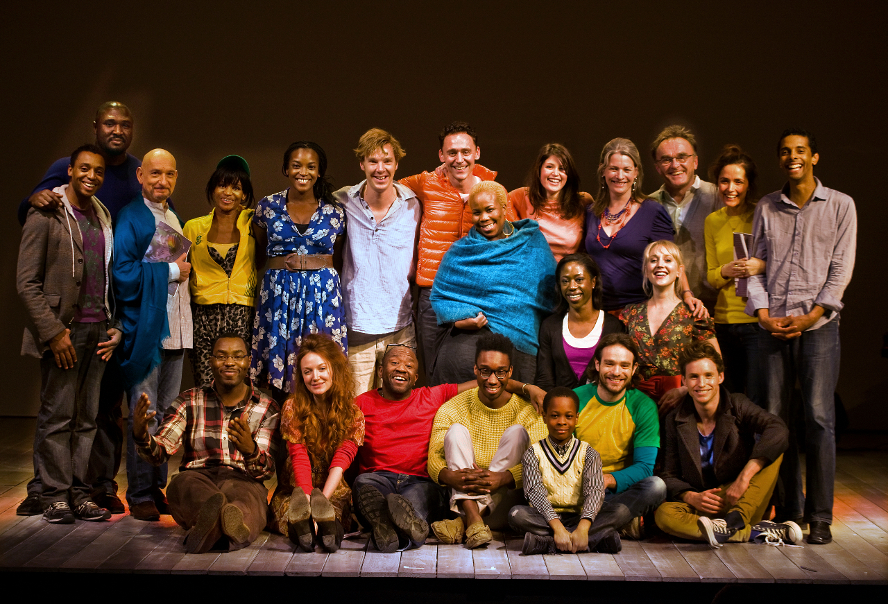 The cast of The Children's Monologuestop row: L to R unknown, Nonso Anozie, Sir Ben Kingsley, unknown, Wunmi Mosaku, Benedict Cumberbatch, Tom Hiddleston, unknown, Gemma Arterton, Kerry Fox, Danny Boyle, Rose Byrne, unknown.bottom row: L to R unknown, Olivia Grant, Lucian Msamati, Nathan Stewart-Jarrett, unknown, Nikki Amuka-Bird, Charlie Cox, Hattie Morahan, and Eddie Redmayne